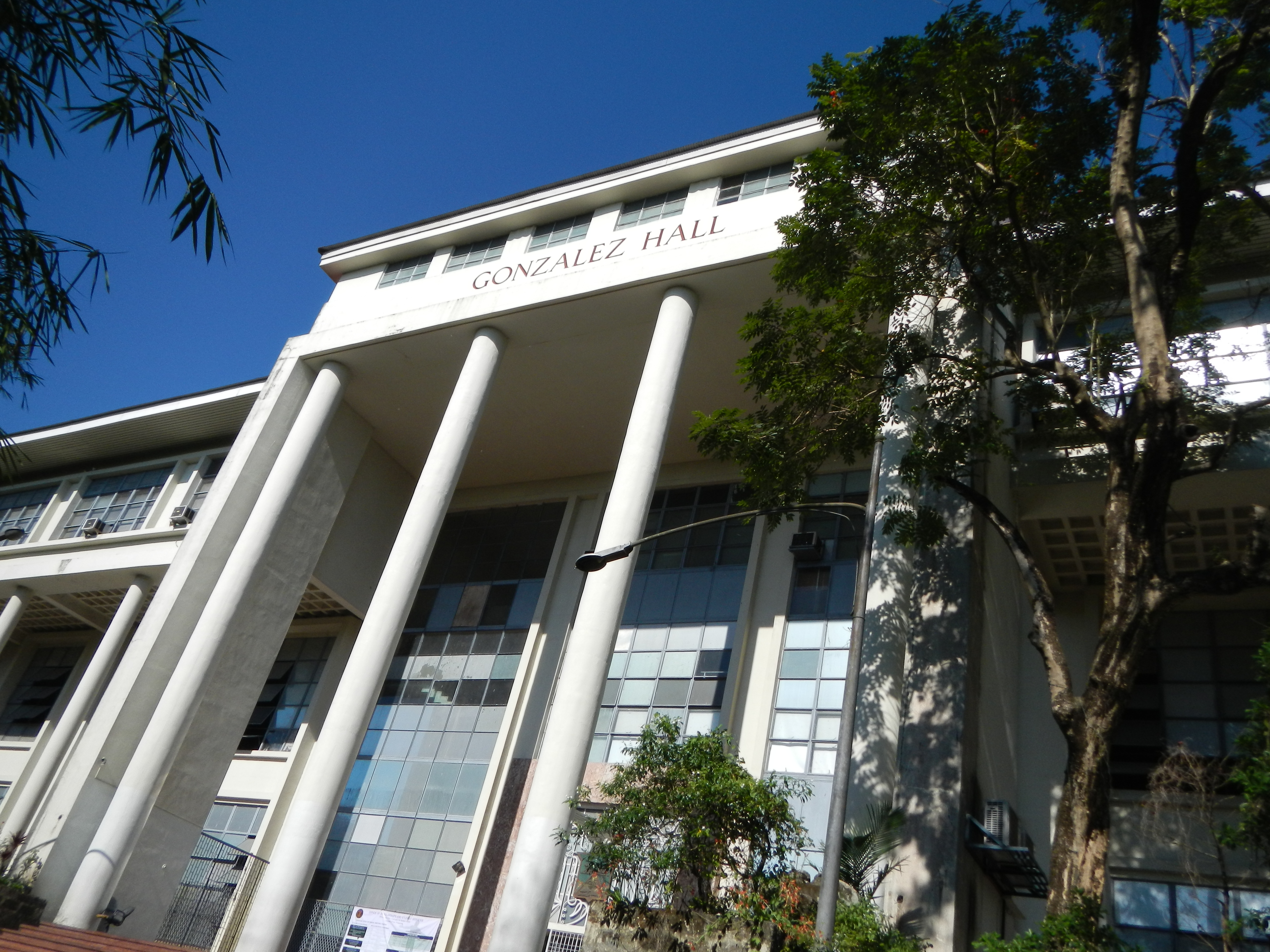 University of the Philippines School of Library and Information Studies[1]The School of Library and Information Studies of the University of the Philippines or UP-SLIS is the oldest library school in the Philippines. Formally established in March 1961 as the Institute of Library Science, it can trace it roots to 1914, making it one of the first library schools in Asia. It is an independent degree-granting unit of the University of the Philippines Diliman[2], and offers programs in the field of Library and Information Science.[3][4] The UP-SLIS is situated at the South Wing, 3rd Floor, Gonzalez Hall, University of the Philippines Diliman, Quezon City.[5]3/F Gonzalez Hall, UP Main Library, UP Diliman, Quezon City[6][7] Geographic coordinate Latitude: 14.65471111 / Longitude: 121.07104722[8]